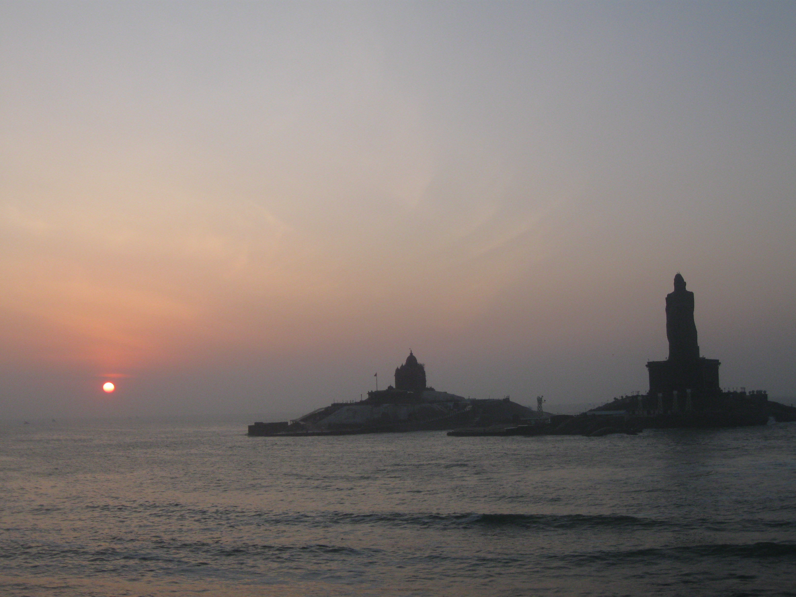 The sun rise in Kanyakumari with the Vivekananda rock and Thiruvalluvar statue in the foreground